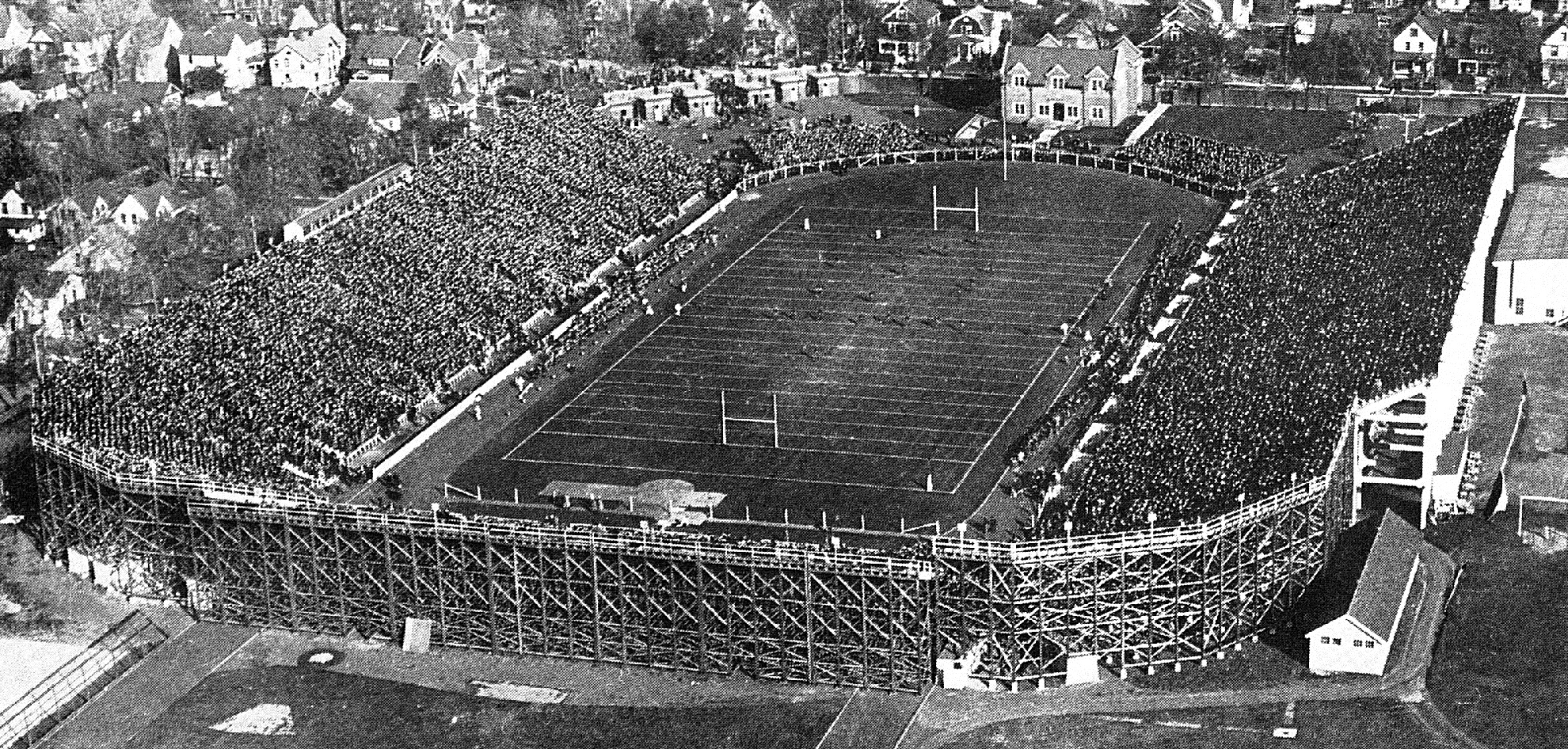 Aerial photograph of Ferry Field prior to opening kickoff of the 1922 football game between Illinois and Michigan.